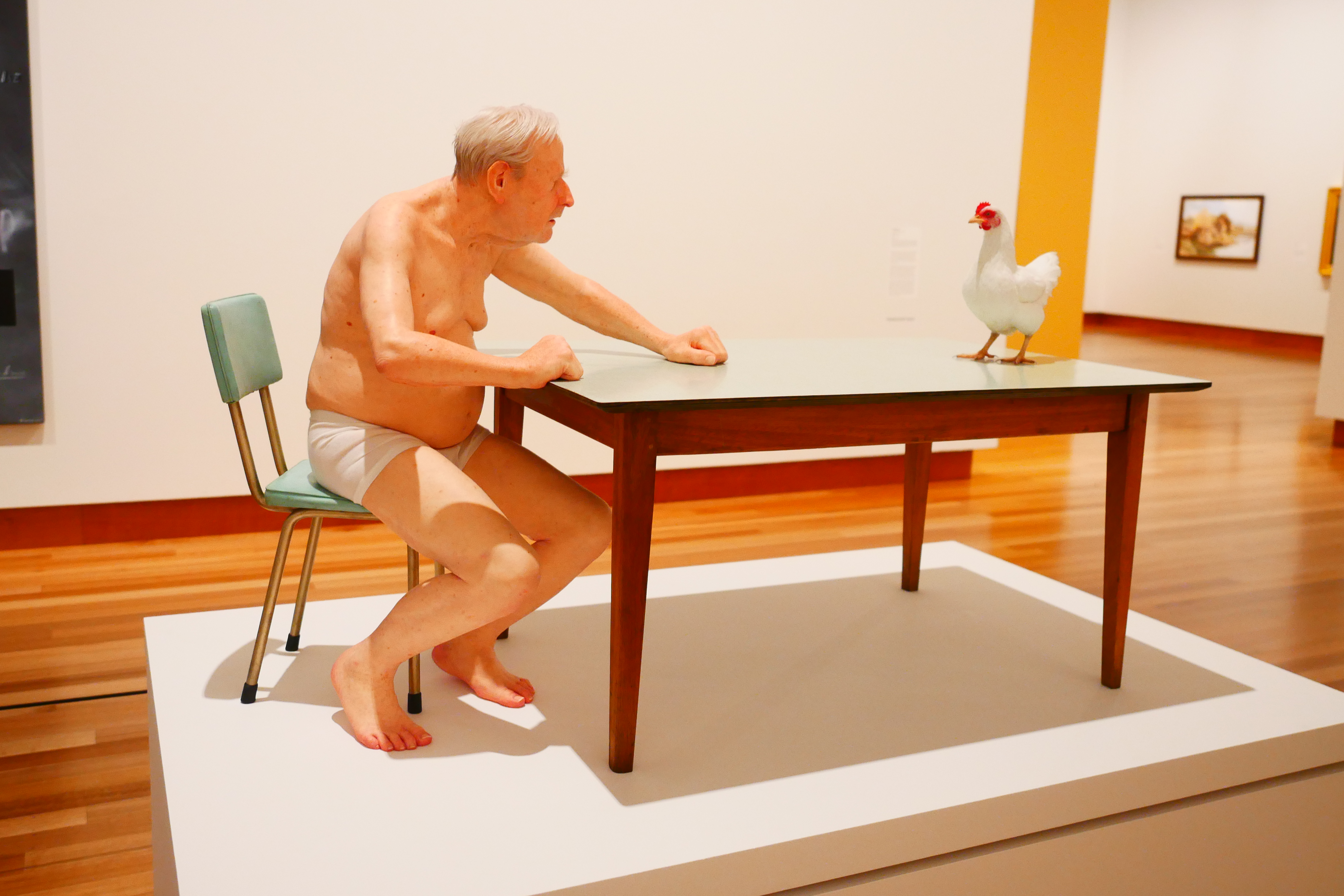 Ron Mueck Chicken man 2019 - Christchurch Art Gallery